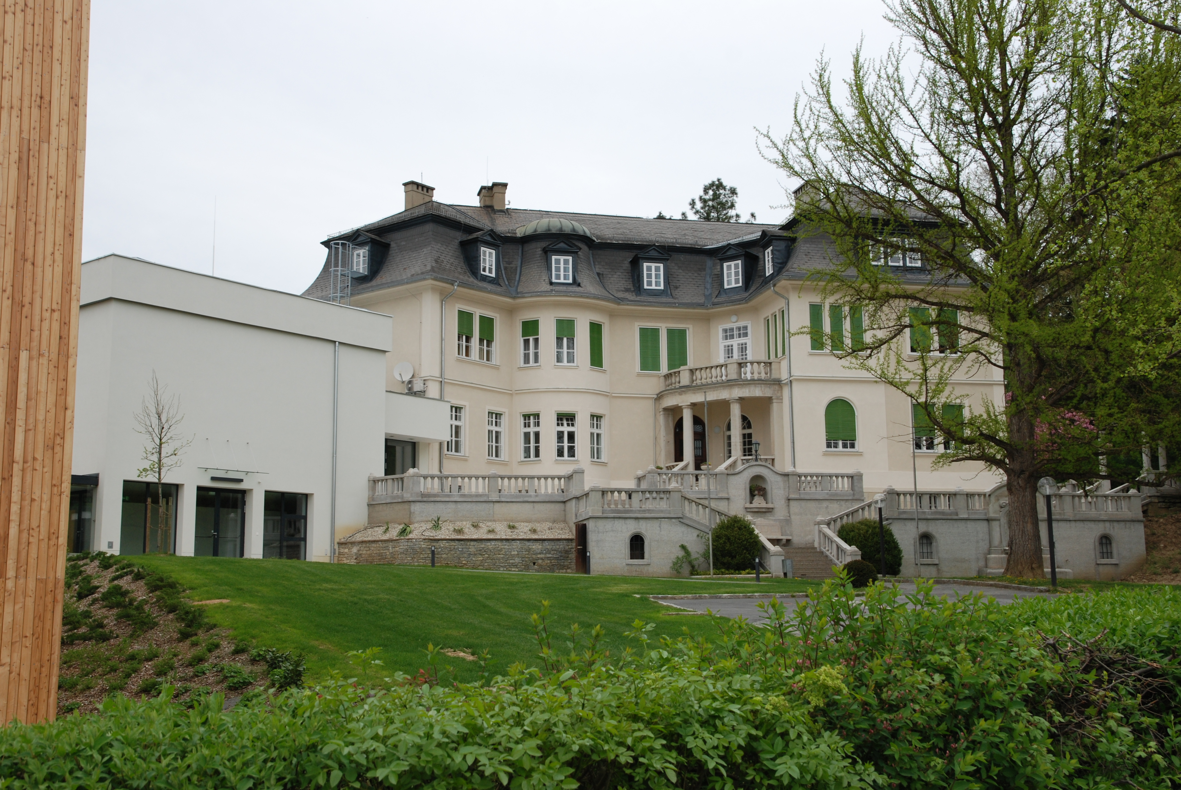 Fachschule Hatzendorf